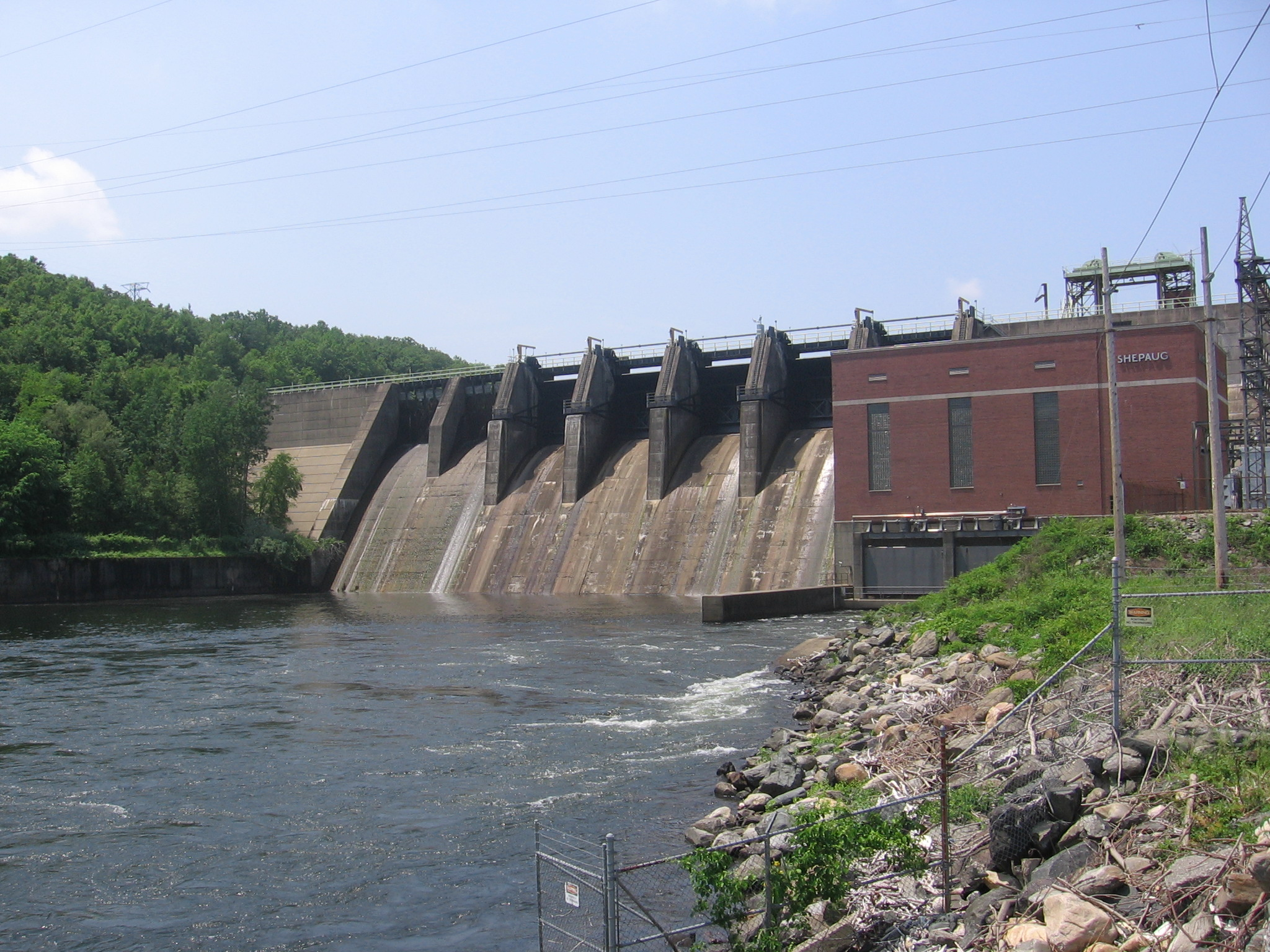 View of the spillway at the Shepaug Dam in Southbury, CT. View is looking west-southwest.